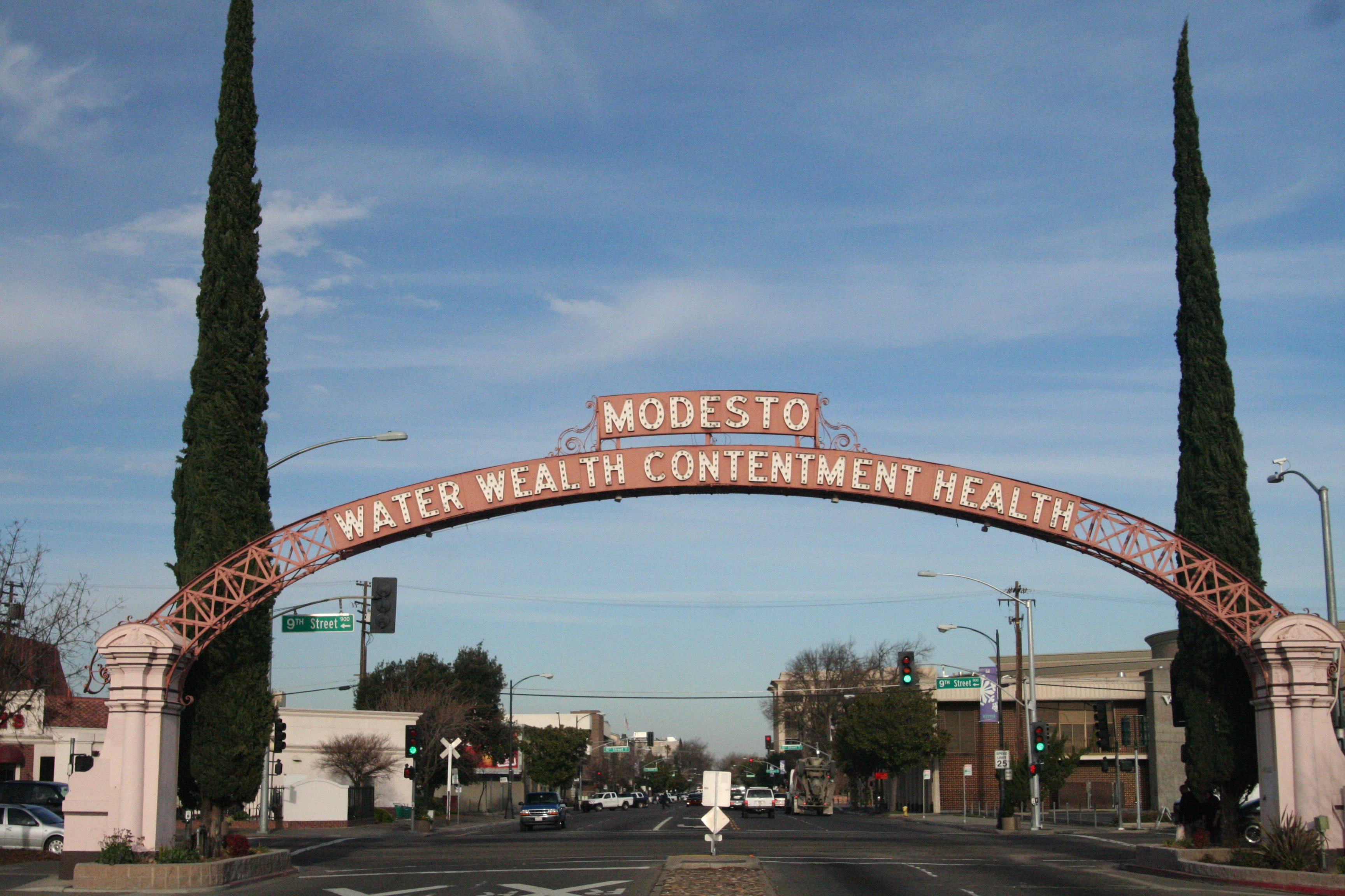 The Modesto Arch, first erected in 1912, by a level crossing in Modesto, north central California. The slogan is the city's motto: "Water, wealth, contentment, health".